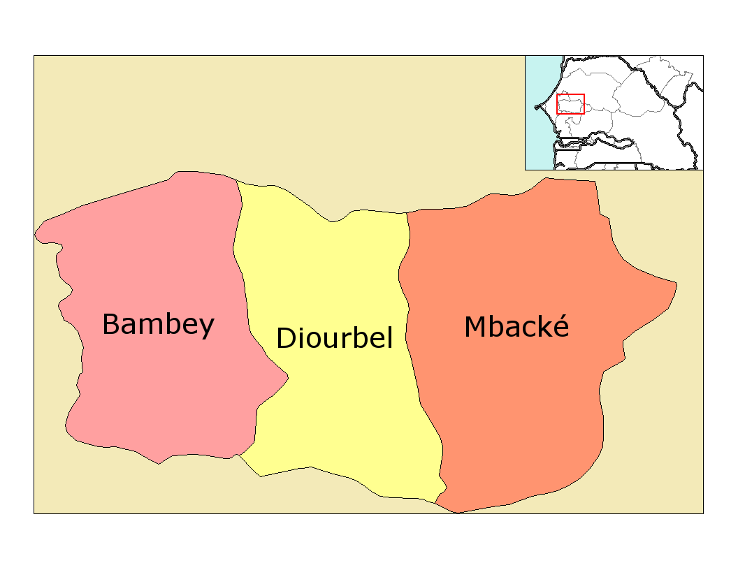 Map of the departments of Diourbel region in Senegal. Created by Rarelibra 22:29, 28 December 2006 (UTC) for public domain use, using MapInfo Professional v8.5 and various mapping resources.